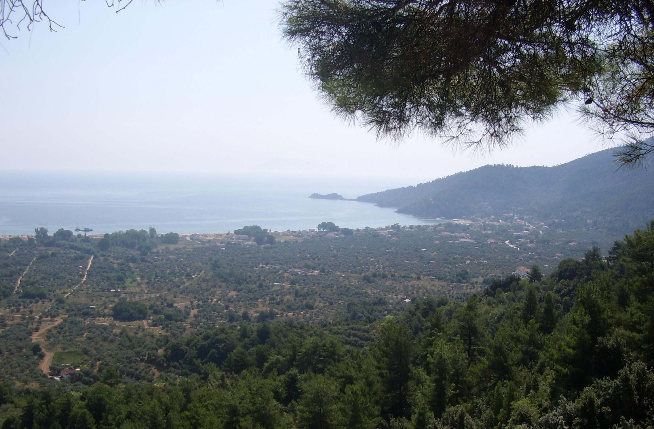 Plain of Panagia-Potamia from Panagia village